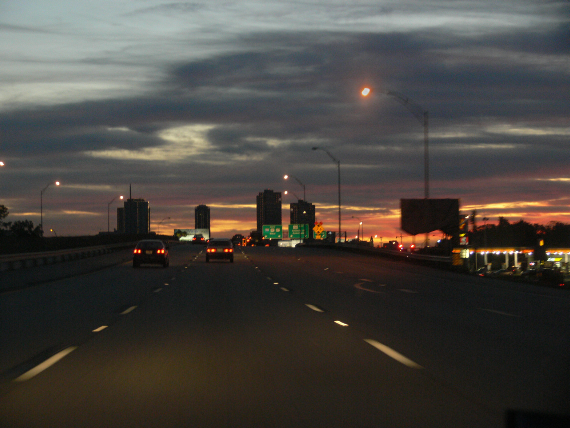 Approaching Fort Worth on the I-30 (from Dallas) in dusk